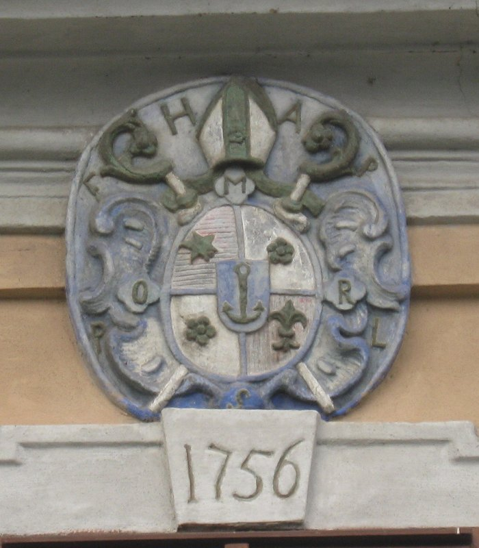 Coat of arms of Fortunatus Hartmann, an abbot of Plasy monastery, at provost house in Ceska Lipa.